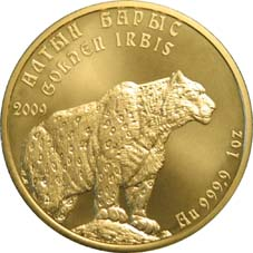 Golden Irbis coin. 100 Tenge. Revers